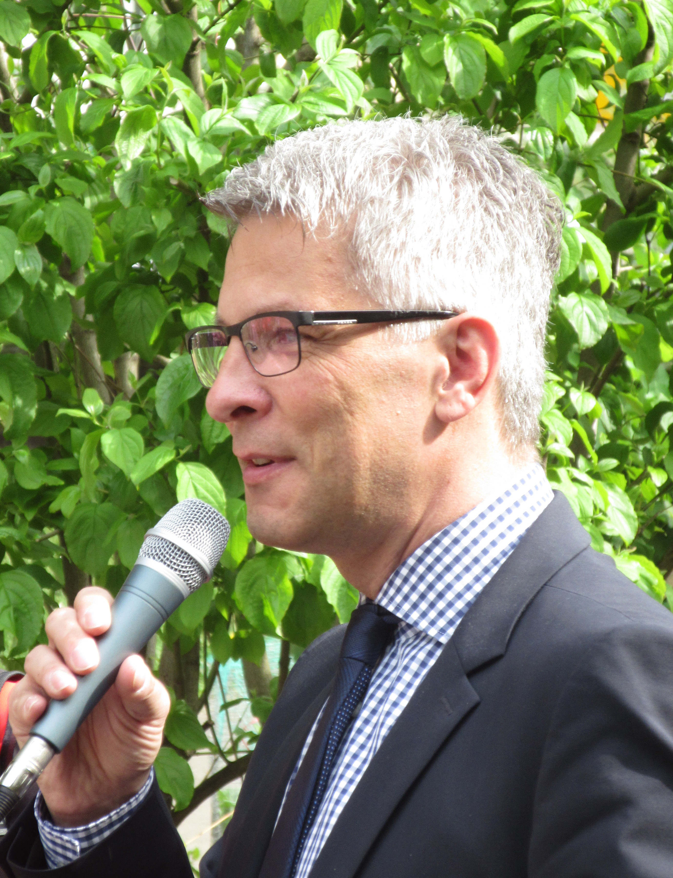 Erik O. Schulz, mayor of Hagen